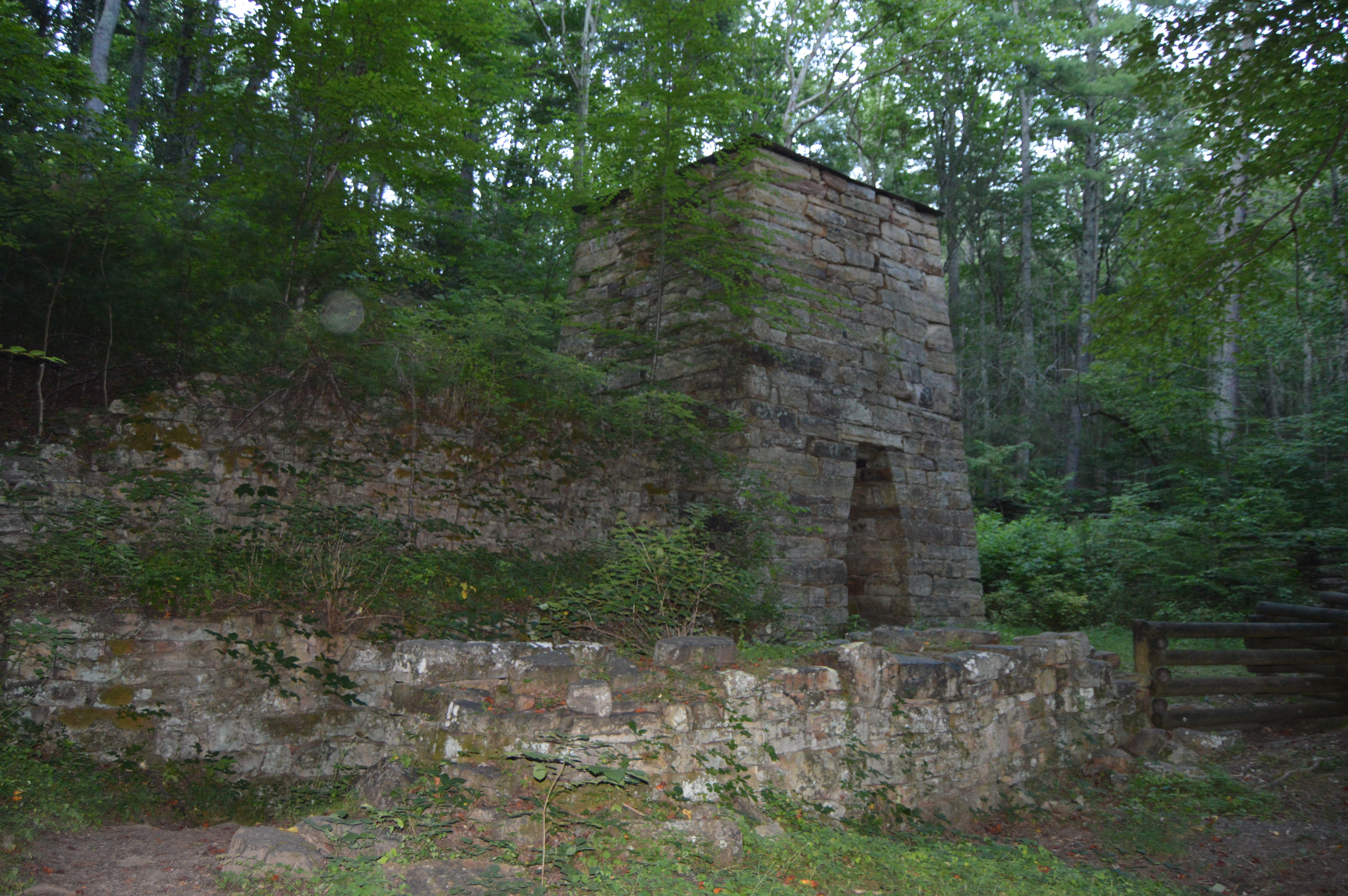 Overview of the Roaring Run Furnace, located off Roaring Run Road north of Strom in Botetourt County, Virginia, United States. Built in 1832, it is listed on the National Register of Historic Places.